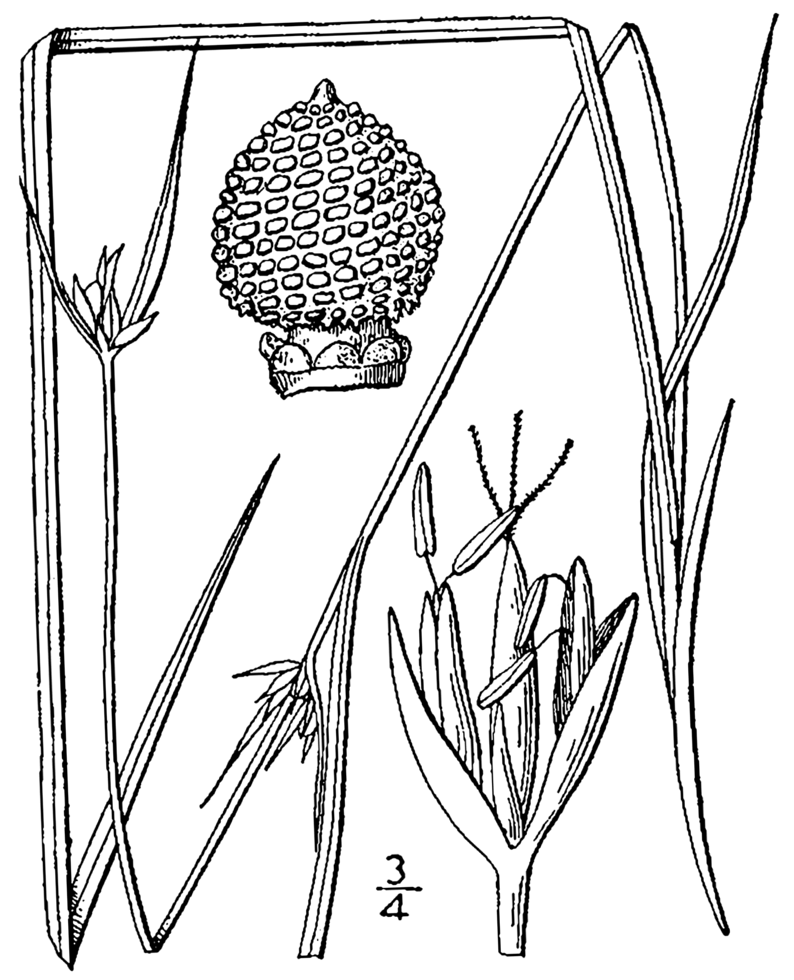 Scleria pauciflora Muhl. ex Willd. - fewflower nutrush